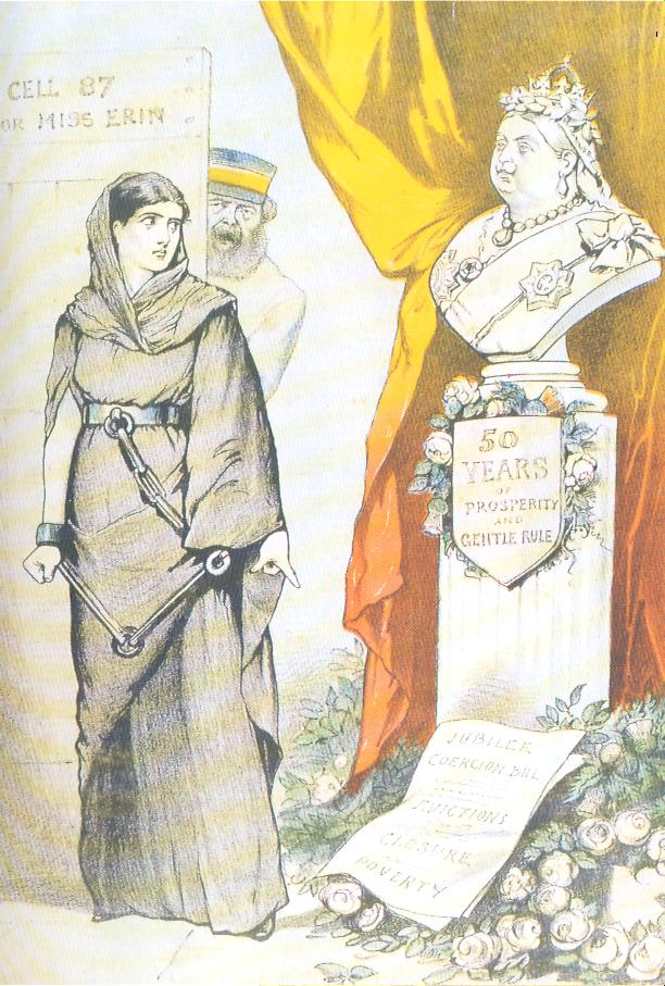 A cartoon from 1887 by John Fergus O'Hea to mark the occasion of Queen Victoria's jubilee celebrating the 50th anniversary of her reign. After eighty seven years since the Act of Union, Ireland was said to be "distracted, disloyal and improverished."